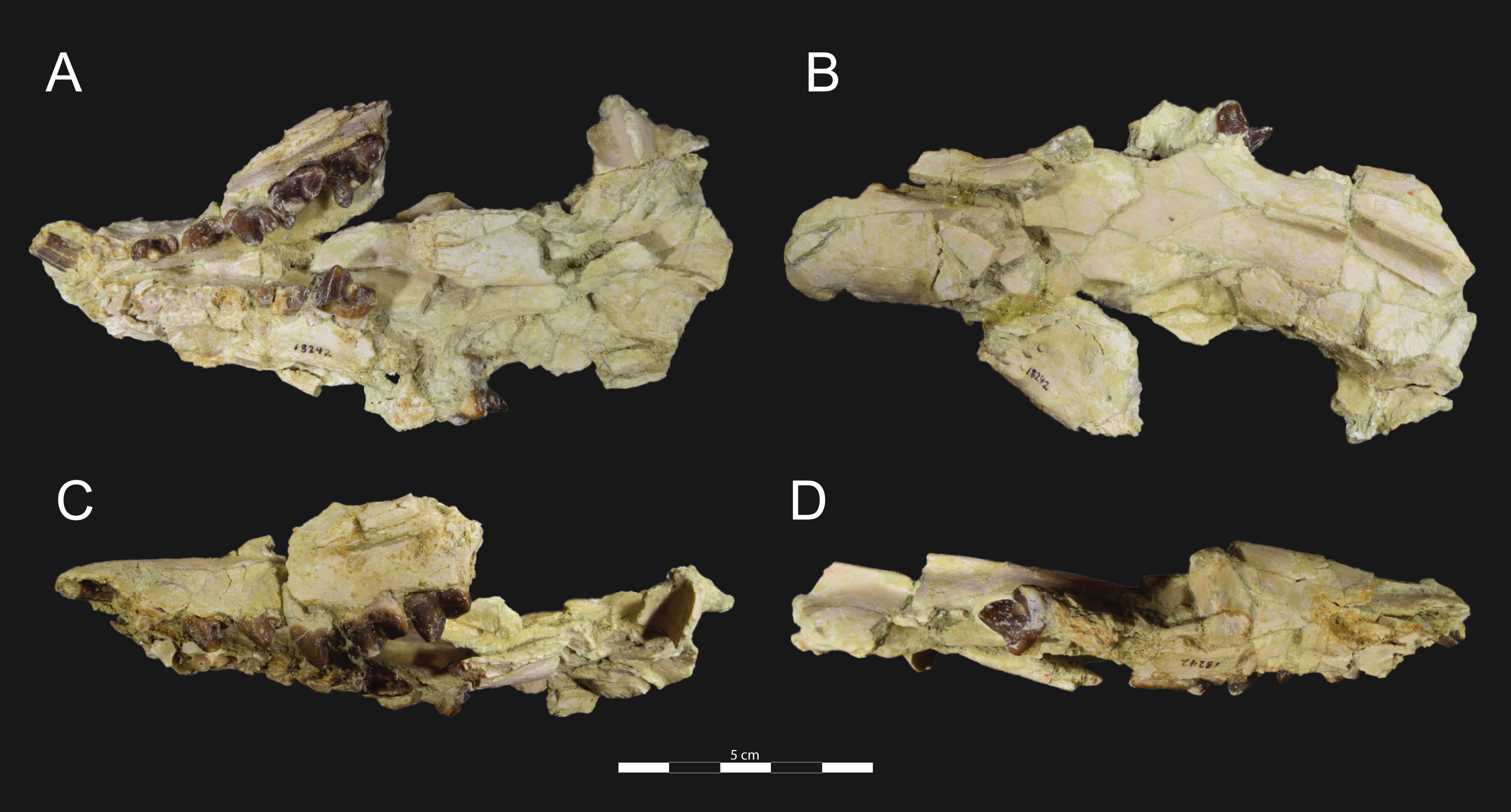 Akhnatenavus nefertiticyon, DPC 18242, palate with left P2–M2 and P1 roots and right M1 and P1–P4 roots; (A) ventral view; (B) dorsal view; (C) left lateral view; (D) right lateral view.